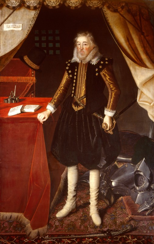 Portrait of Sir Anthony Mildmay (d.1617). Collection of Emmanuel College, Cambridge, founded by his father Sir Walter Mildmay.